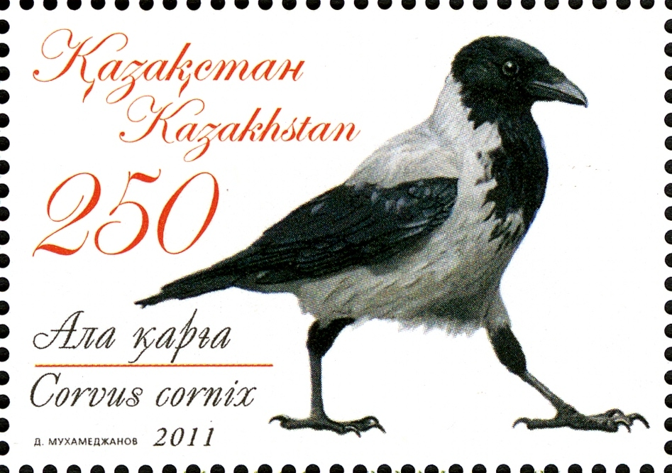 Stamps of Kazakhstan, 2011